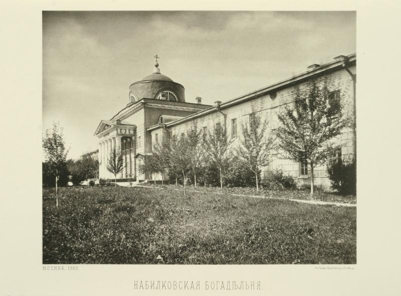 Plate 91. Nabilkov Almshouses in Moscow (now Protopopovsky Lane).